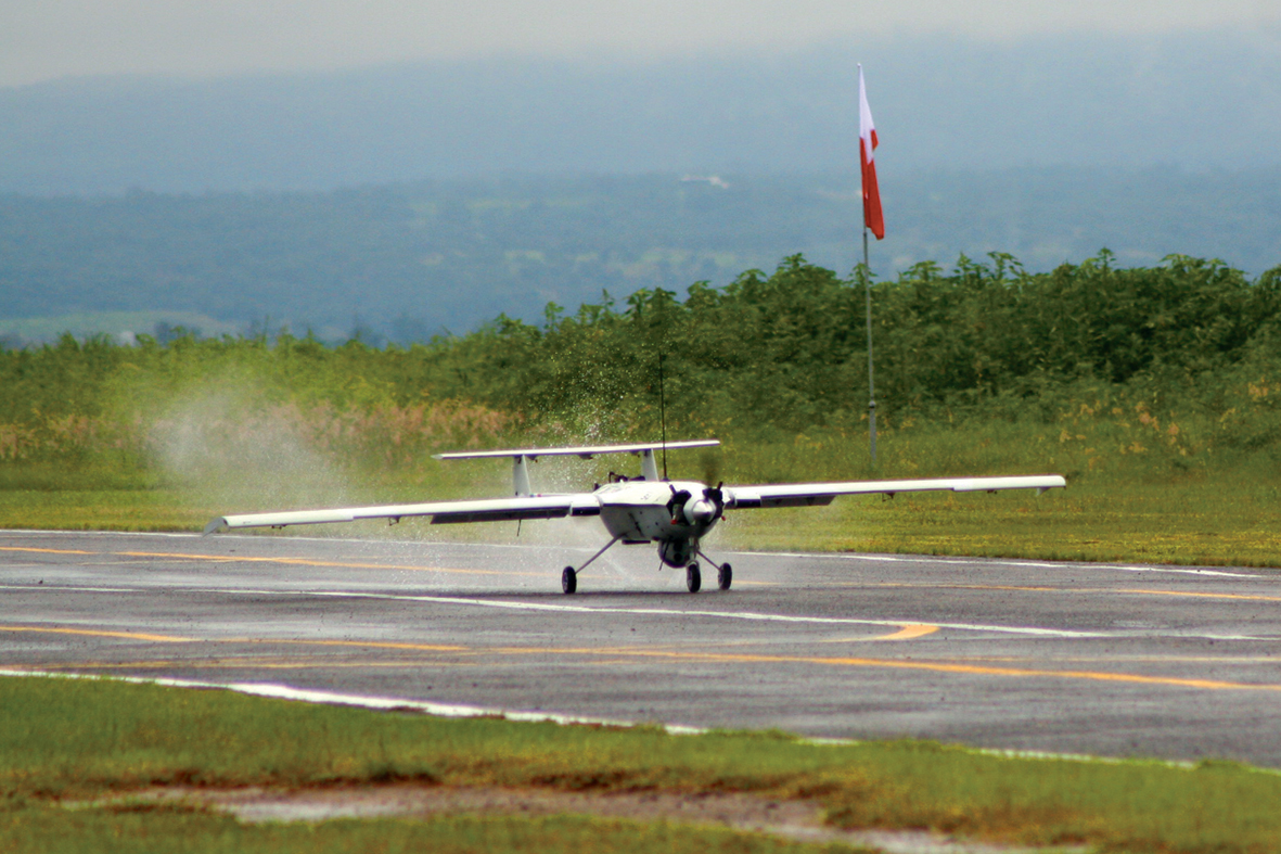 S4 Ehecatl landing